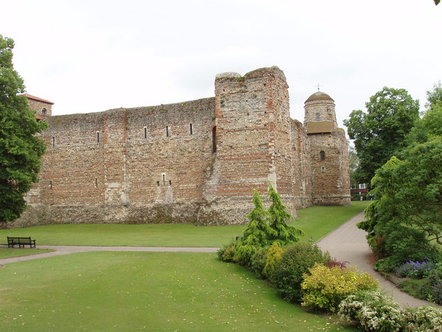 A rear view of Colchester Castle, looking north(-west), in its setting of Castle Park.